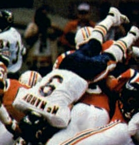 Chicago Bears' quarterback Jim McMahon rushing the ball for a touchdown against the New England Patriots in Super Bowl XX.